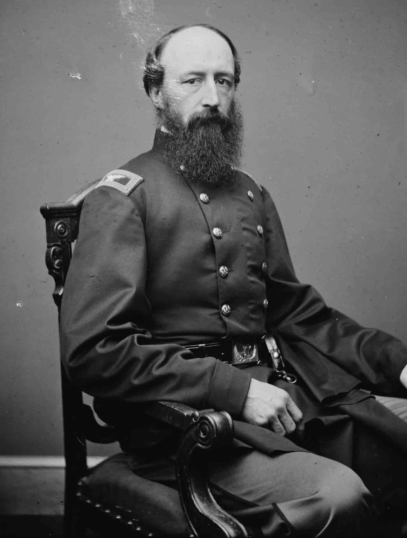 Col. J.L. Riker, 62nd N.Y. Inf.